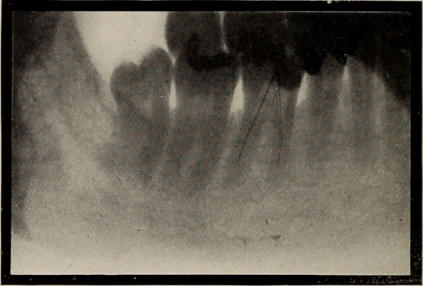 Title: Dental and oral radiography : a text book for students and practitioners of dentistry Year: 1916 (1910s) Authors: McCoy, James David Subjects: Radiography, Dental X-rays Teeth Mouth Publisher: St. Louis : Mosby Text Appearing Before Image: Fig. 67.An area of necrosis about the roots of a lower first molar. Broken-off broaches and other instruments, orsmall wires introduced into root canals to deter-mine their length or the extent to which they havebeen opened, because of their great density, ap-pear very white and are easily differentiated fromroot-canal fillings or tooth structure. (Figs. 68and 69.)Where a destructive process has ensued in the 142 DENTAL AND ORAL RADIOGRAPHY peridental membrane, or in the bony Avail of thealveolus (pyorrhea pockets) and is present onthe mesial or distal side of a tooth, these condi- Text Appearing After Image: Fig. 68. Small wires introduced into root canals to determine their length orthe extent to which they have been opened, are easily differentiated fromroot canal fillings or tooth structure.